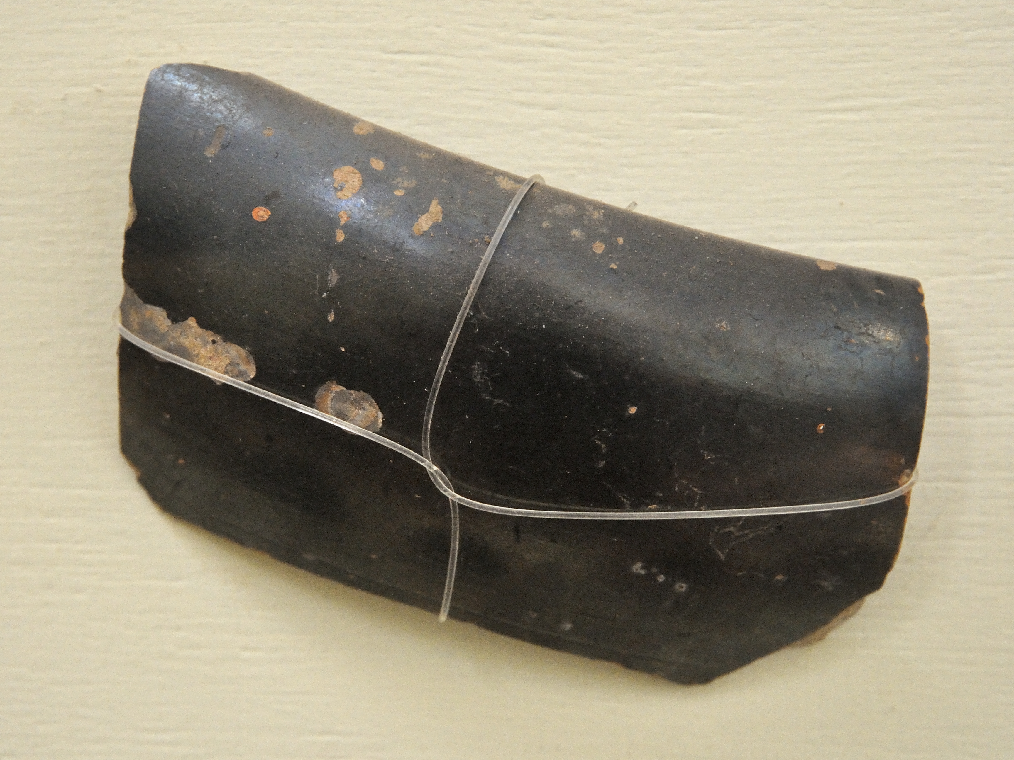 This artefact resides at the Government Museum, (hi: Rashtriya Sangrahalaya) formerly The Curzon Museum of Archaeology, Museum Road or Murari Lal Rajpal road, Dampier Nagar, Mathura, Uttar Pradesh, India. This museum is administrating by the State Government of Uttar Pradesh of India.